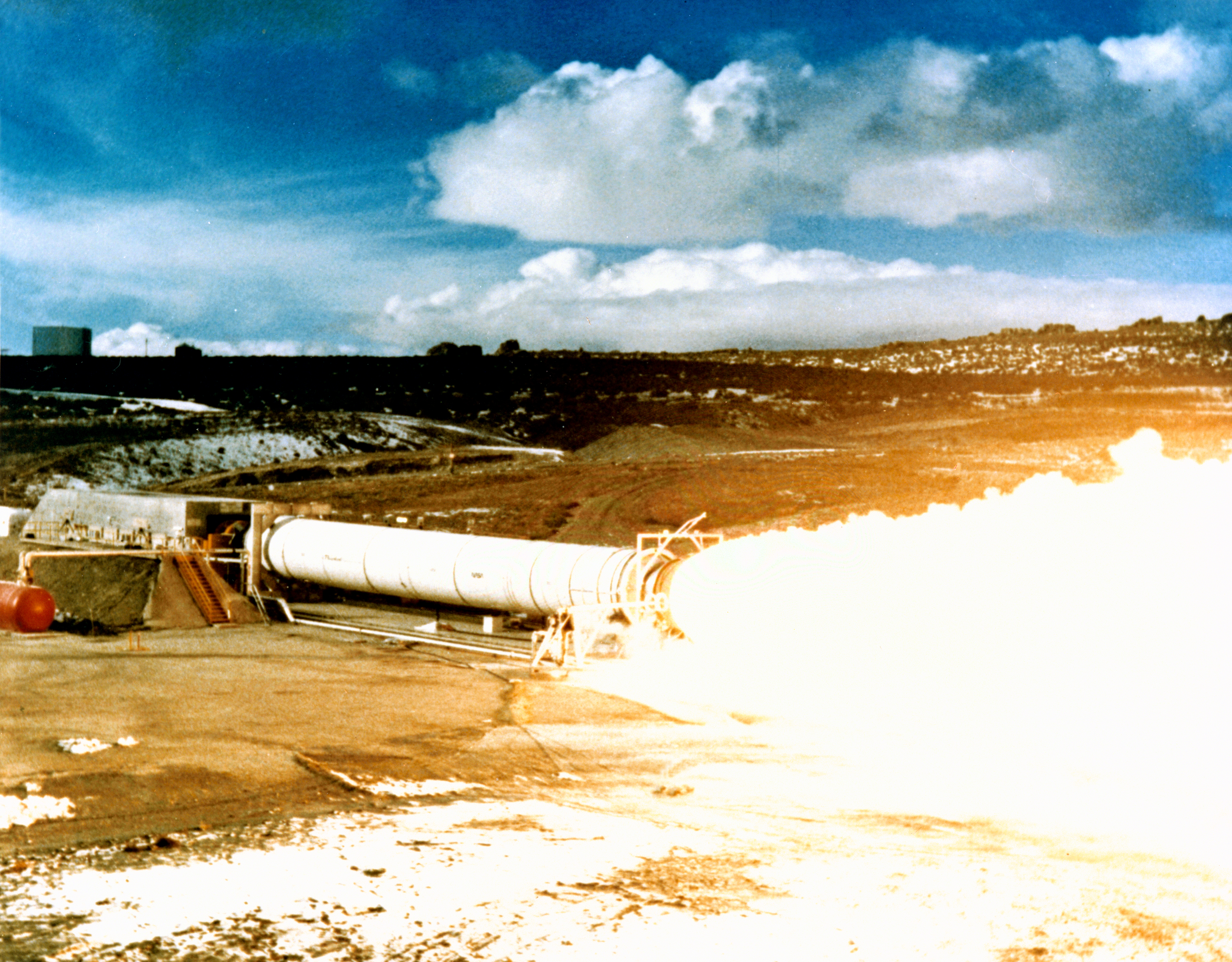 This photograph was taken during the static test firing of the DM-2 (Demonstration Motor) for the Solid Rocket Booster (SRB) at the testing ground of Thiokol Corporation near Brigham City, Utah. As one of the major components of the Space Shuttle, SRBs provide most of the power, their combined thrust of some 5.8 million pounds, for the first two minutes of flight. The SRBs take the Space Shuttle to an altitude of 28 miles and a speed of 3,094 miles per hour before they separate and fall back into the ocean to be retrieved, refurbished, and prepared for another flight. MSFC has the management responsibilities with Thiokol Corporation as the prime contractor.